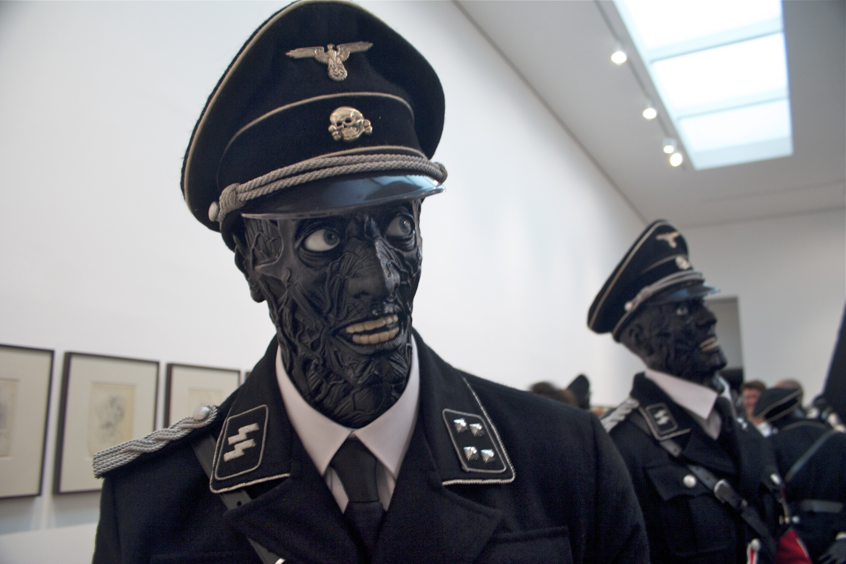 This was opening night of the Jake or Dinos Chapman exhibit at the White Cube Gallery. There were a variety of these nazi zombie mannequins done up in a variety "whimsical" poses, and many were made to look like they were admiring other art work at the show.